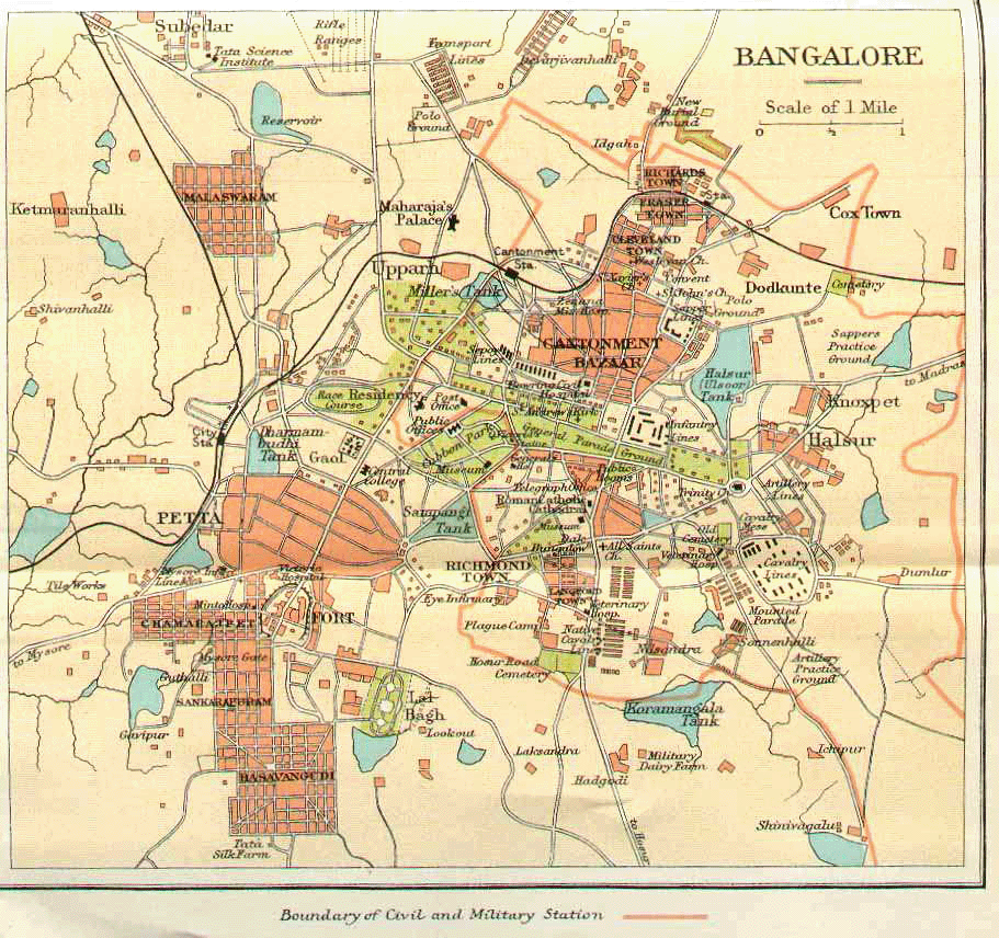 Historical Map of Bangalore, India, circa 1924. This is a low-quality scan of a 1924 city map from "Murray's 1924 Handbook".